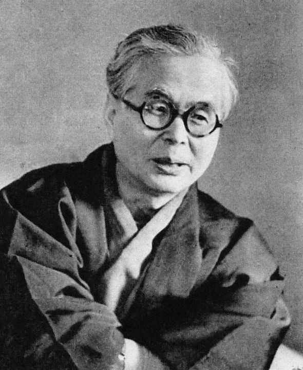 Kojiro Serizawa